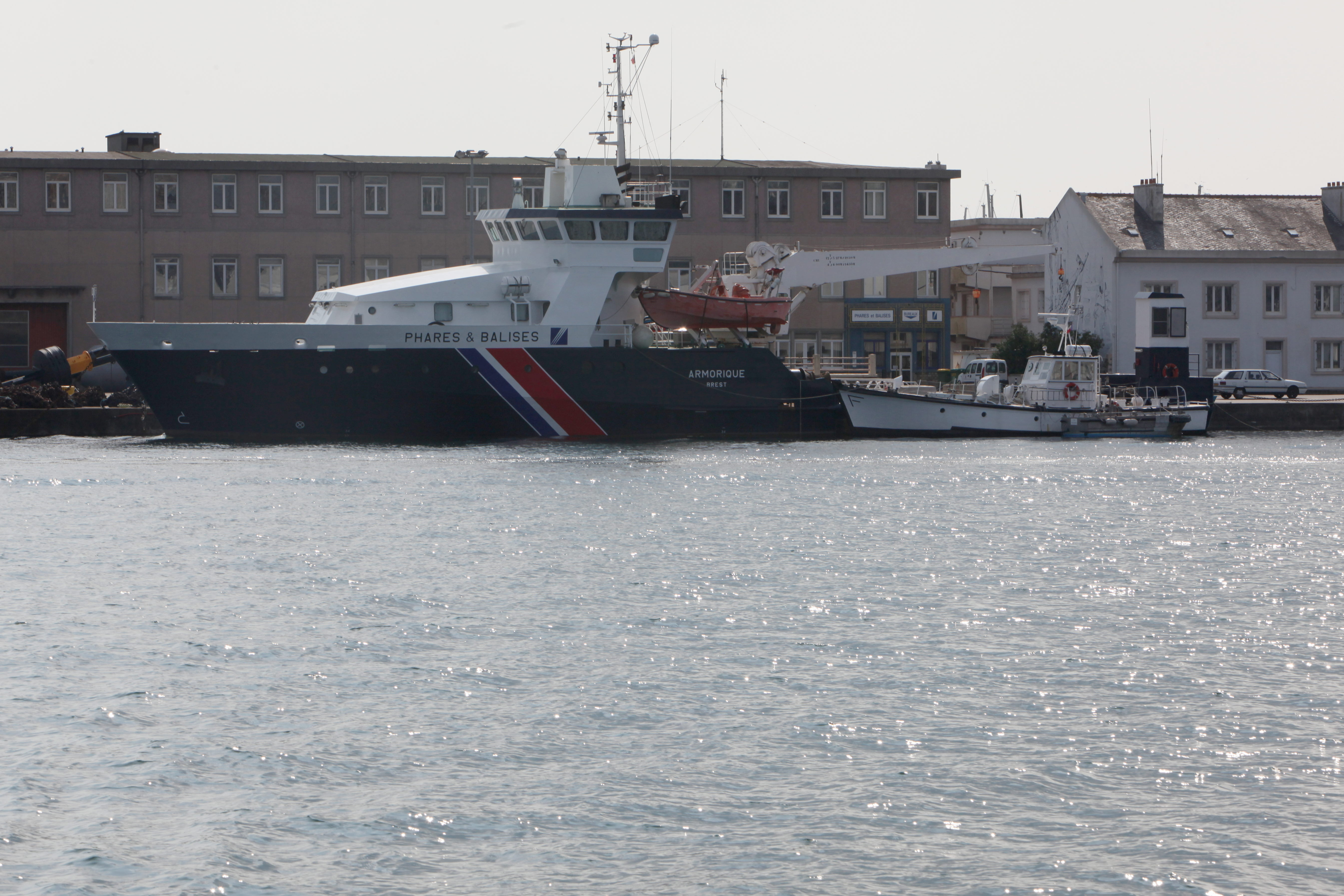 Oceanic seamark ship Armorique in Brest harbour.